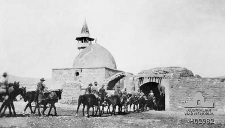 AWM caption : Members of an Australian Light Horse unit entering the khan or caravanserai at Kuteife. This village thirty miles ( 41 kms) northeast of Damascus on the road to Homs.